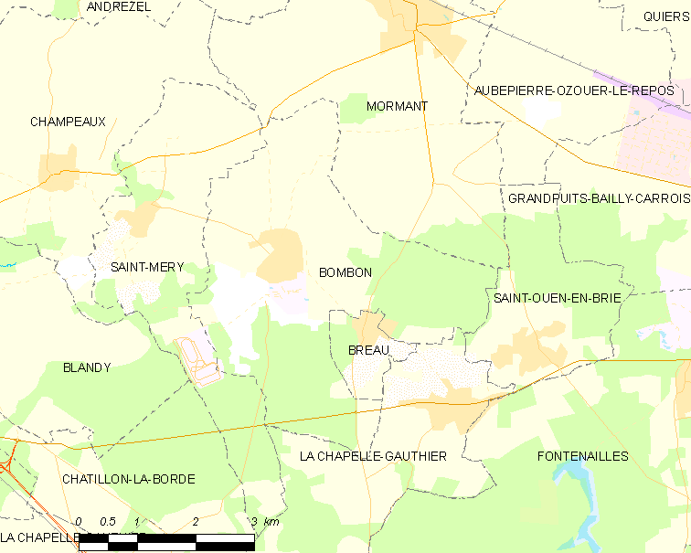 Map of French municipality Bombon